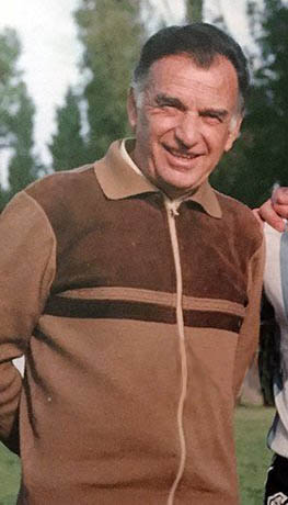 Image cropped from a picture of Ernesto Duchini with Diego Maradona taken in 1979